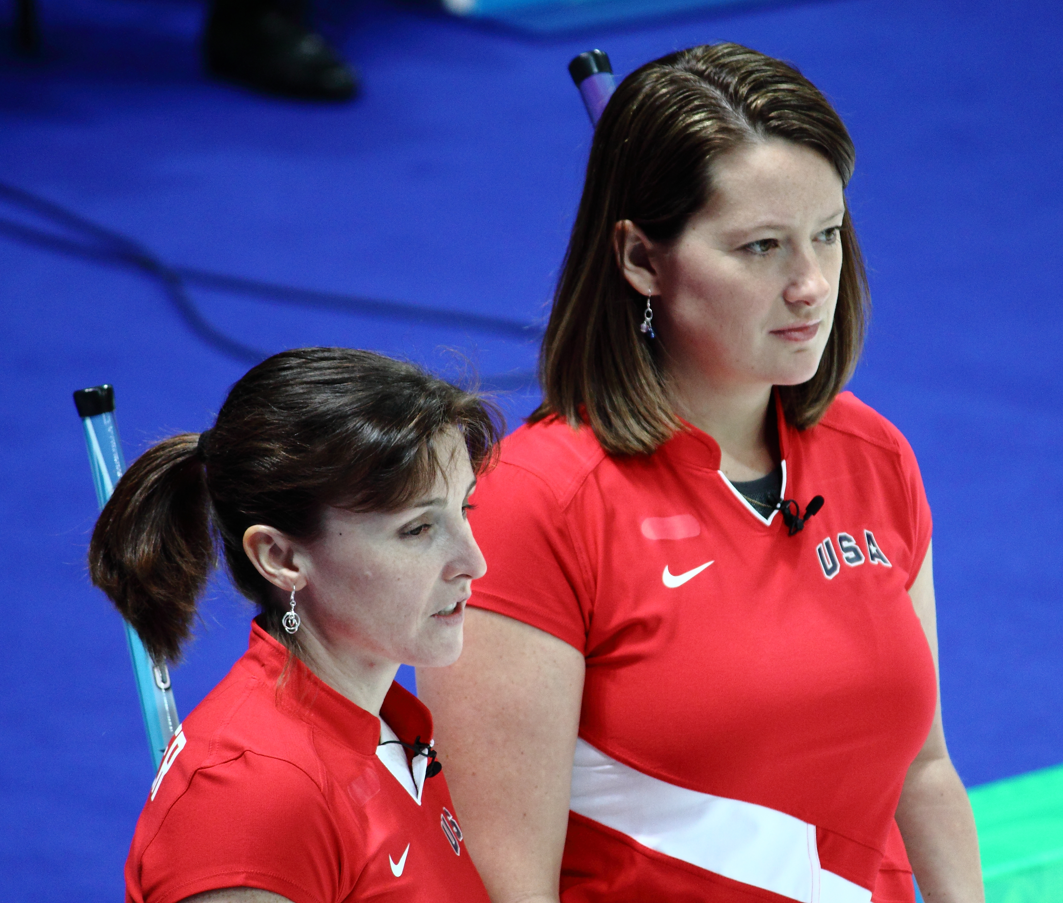 Women's Curling Team USA, 2010 Vancouver Olympic Games - Women's Curling - Preliminary from Vancouver Olympic Centre